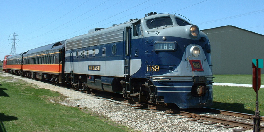 Mueseum train at Monticello Railway Museum, Illinois, USA